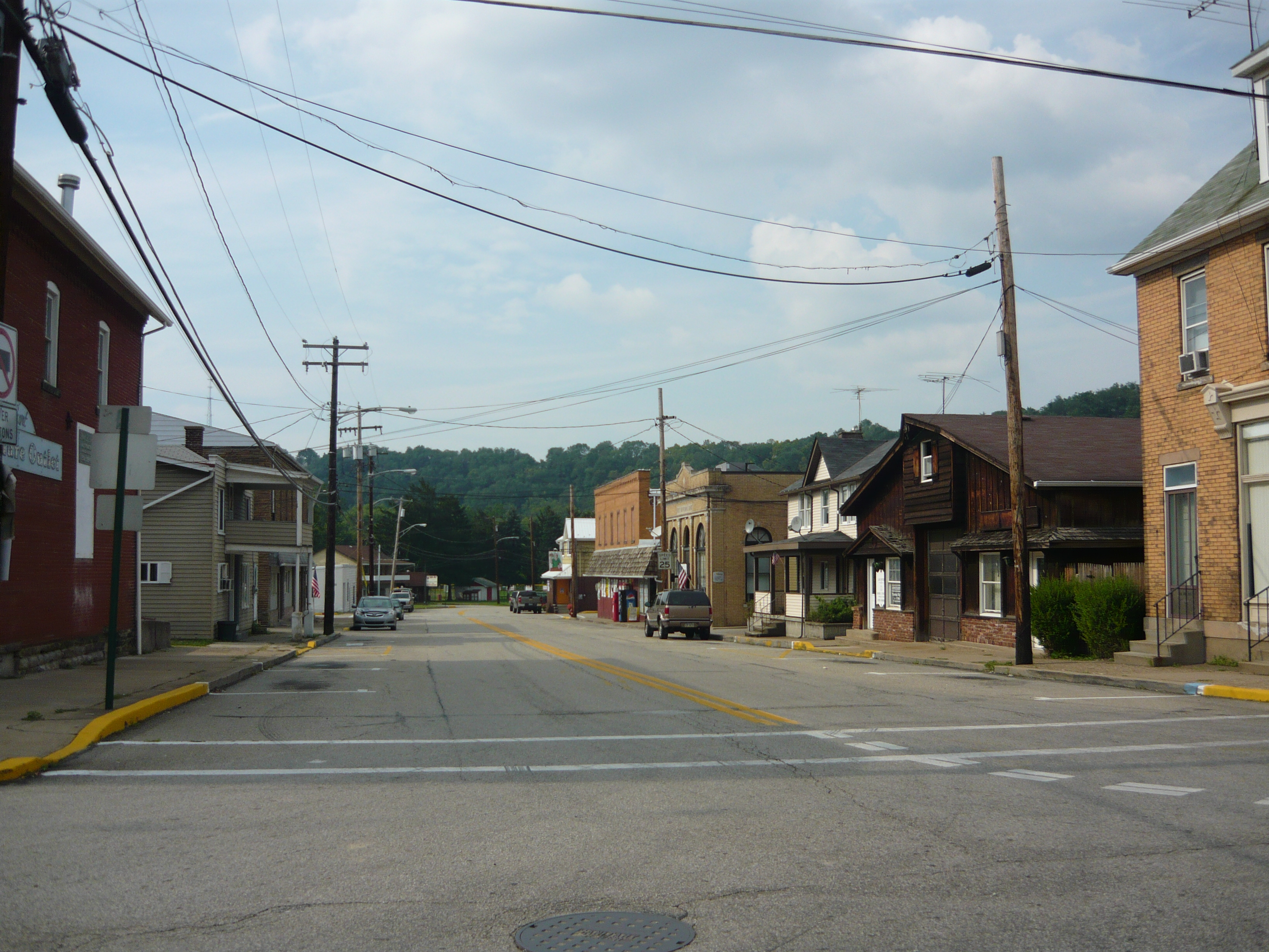 Looking north on Peer Street from Second Street, Smithton, Westmoreland County, Pennsylvania.